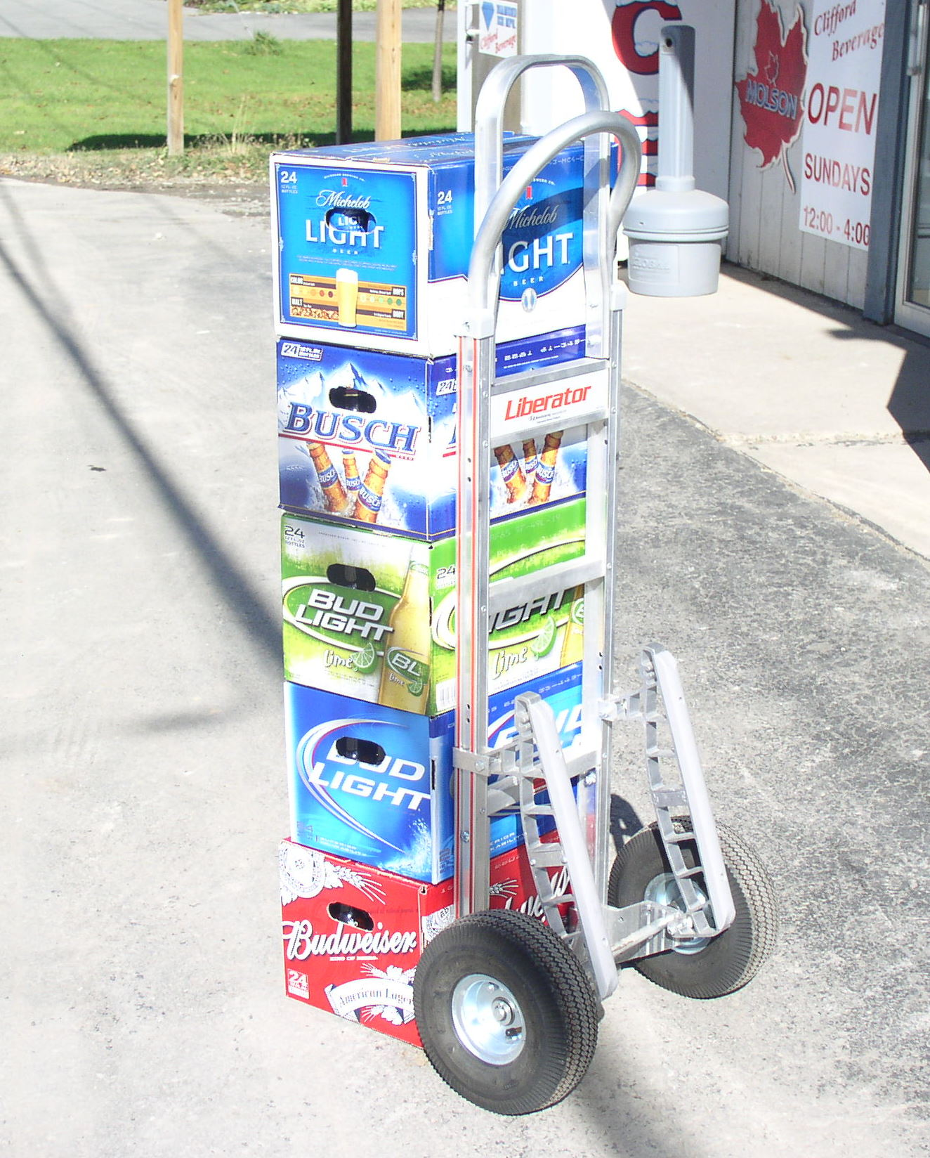 The B&P Liberator commercial hand truck is designed for beverage, food service and freight deliveries.